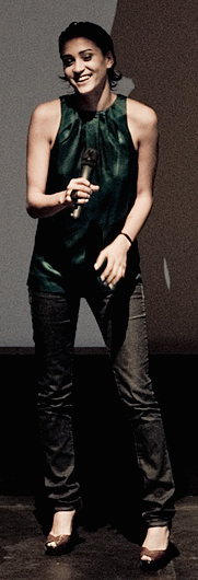 Morjana Alaoui at Ryerson Theatre for her movie Martyrs.